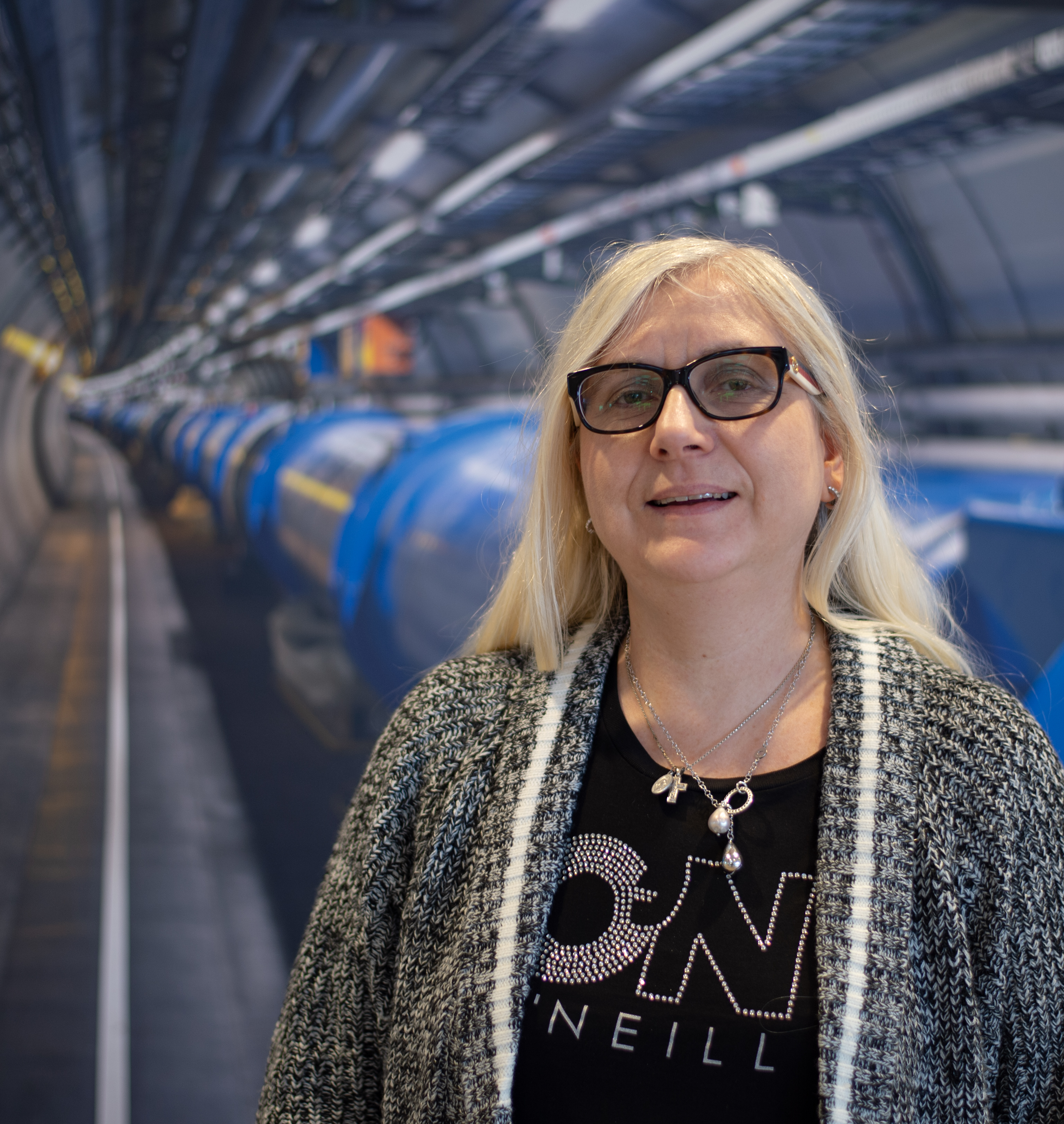 Photograph of Professor Antonella De Santo taken at CERN in December 2019.